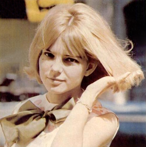 Trade ad for France Gall's single "A Lonely Singing Doll".To better adapt it to his respective Wikipedia article, the ad was cropped and cleaned in a graphics editing program. The original can be viewed at the source below.